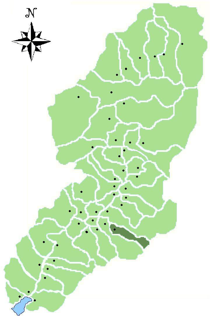 Map of the Comune di Prestine, Valle Camonica